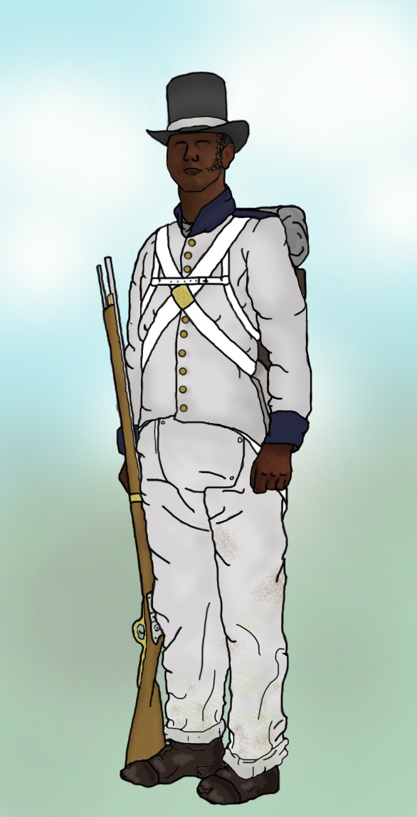 Colonial Marine in forage dress, British Army, 1814.